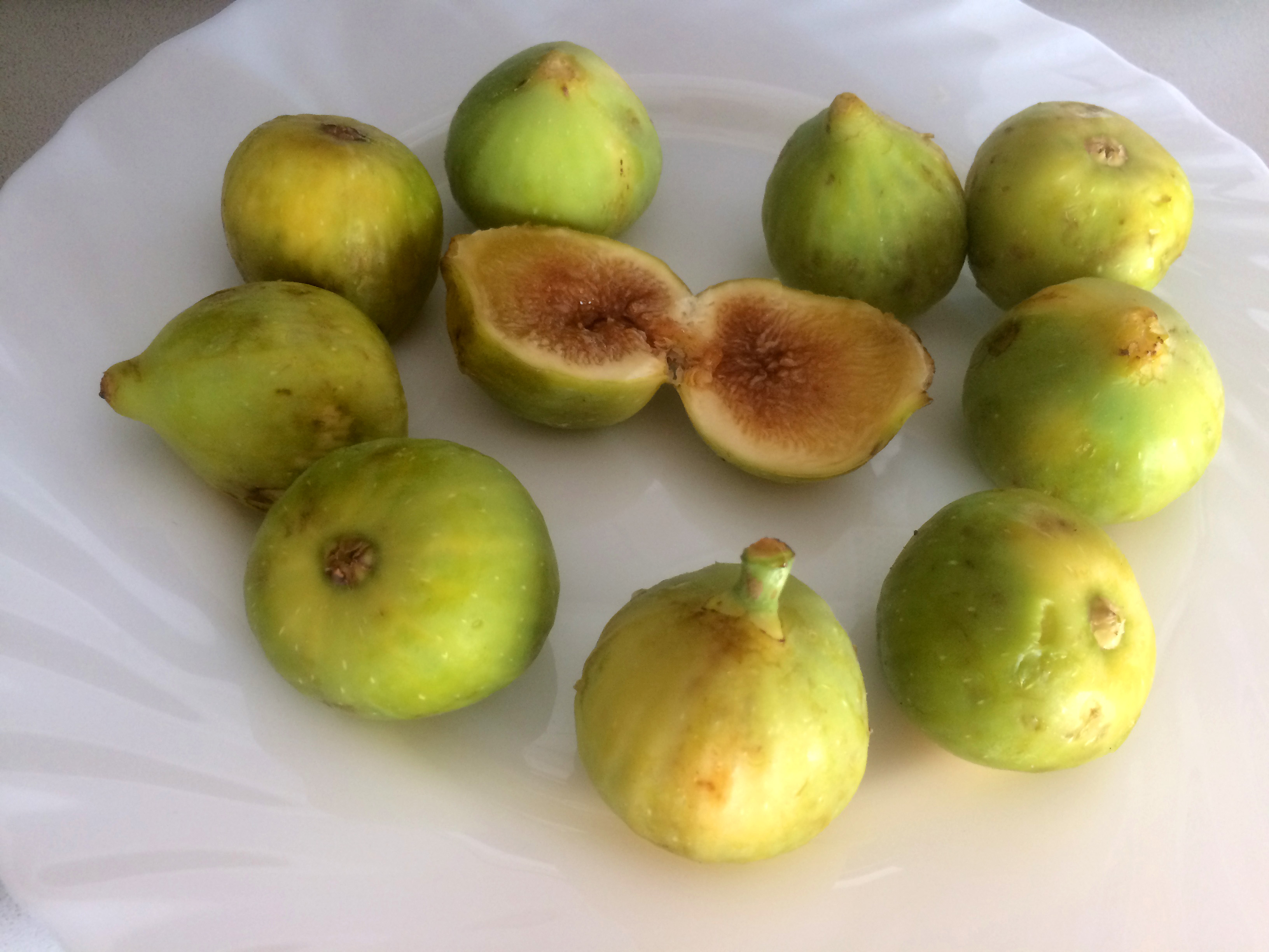 Ficus carica Cuello de Dama Blanco, grown in Poyales del Hoyo, Ávila, Spain.